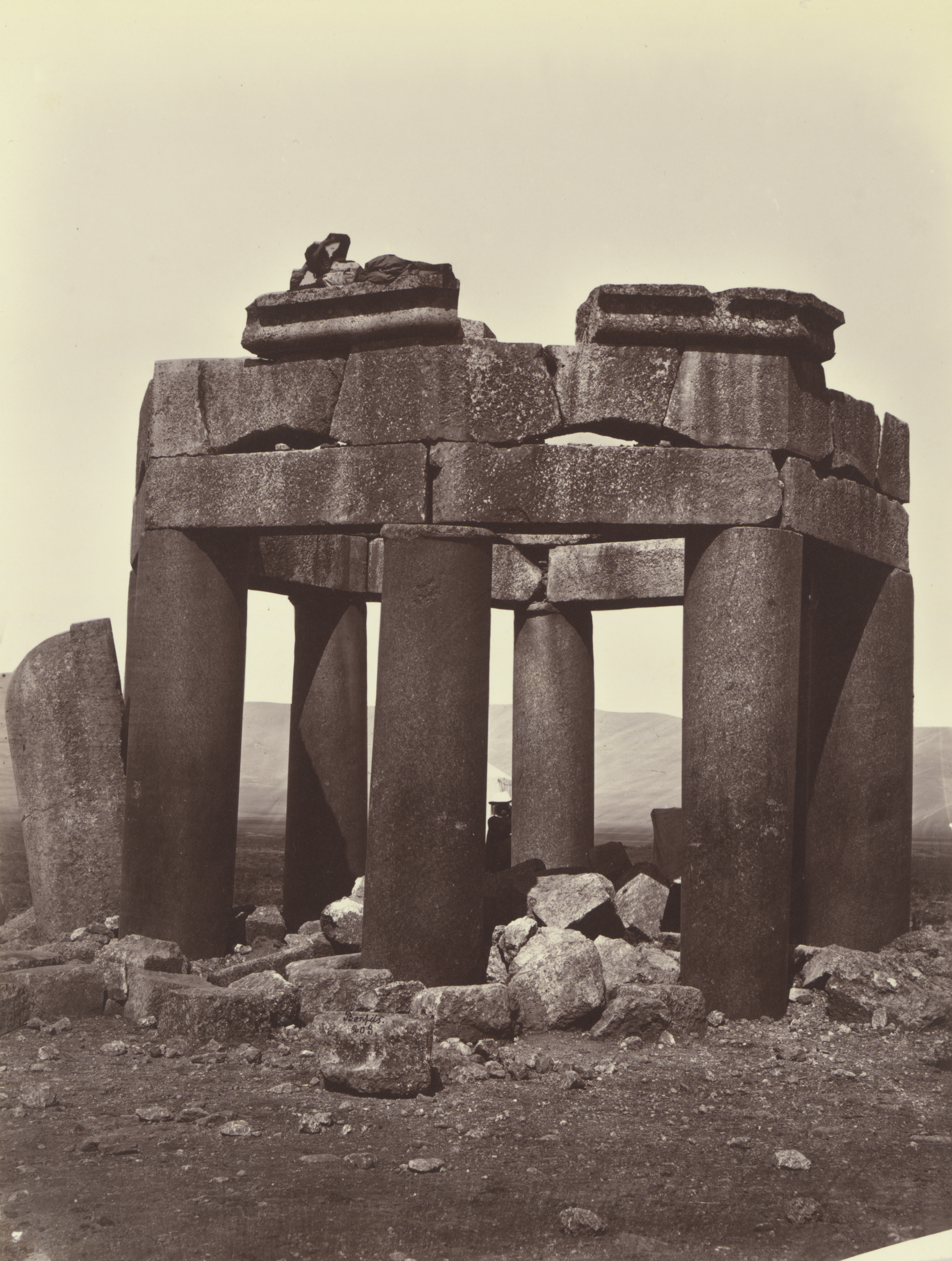 The Dome of Duris in the Beqaa Plain near Baalbek